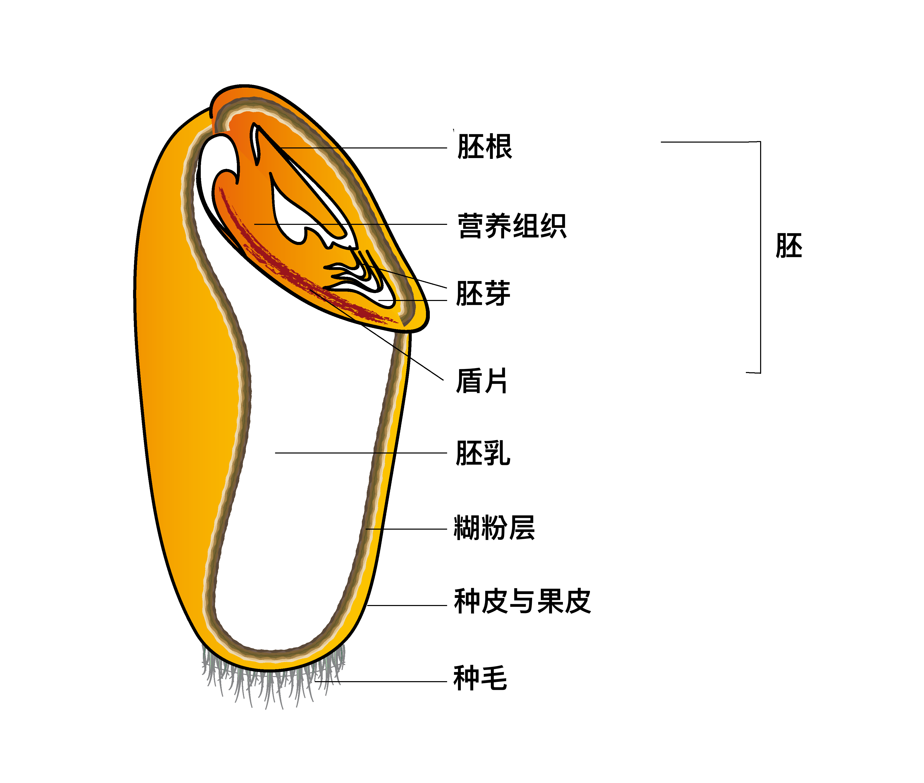 Model of a wheat grain